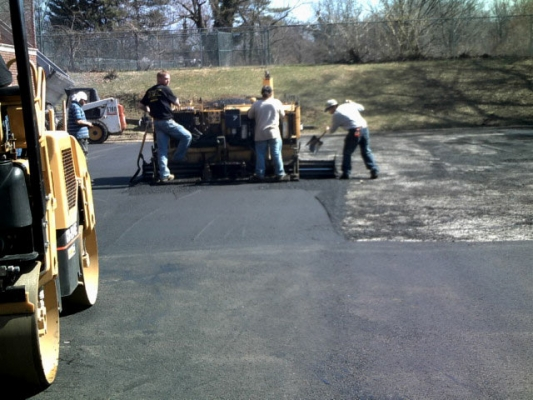 Maryland company "A Thru Z Striping" layering asphalt.